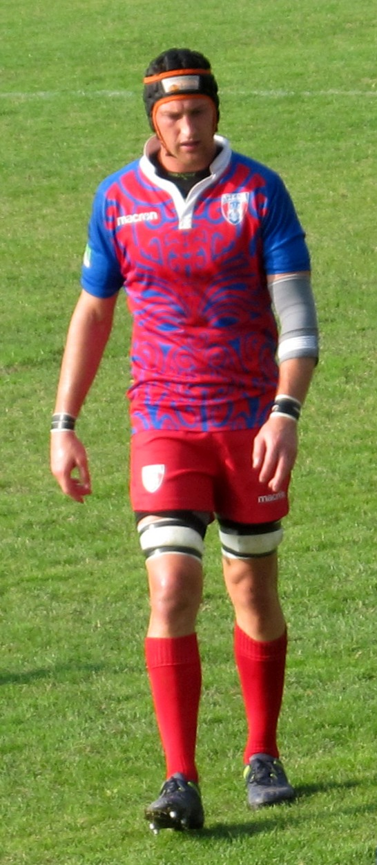 South African born Irish rugby union football player Matthew Devon Tweddle, player of CSA Steaua București rugby club seen playing during a match against CSM Baia Mare in Round 9 of Romanian Rugby Superliga 2019–20 season in October 2019